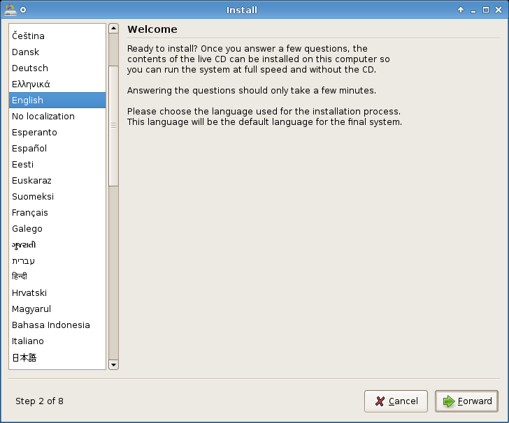 Language selection screen in the Ubiquity installer used in Ubuntu and its derivatives.